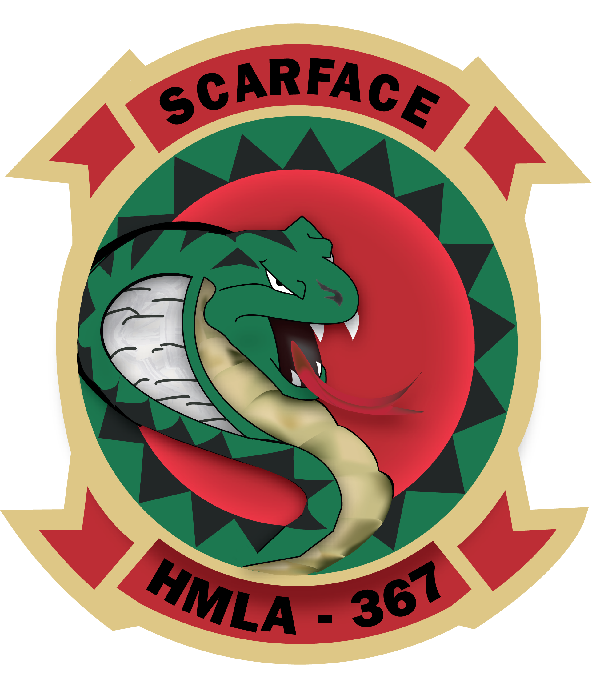 Squadron insignia for HMLA-367